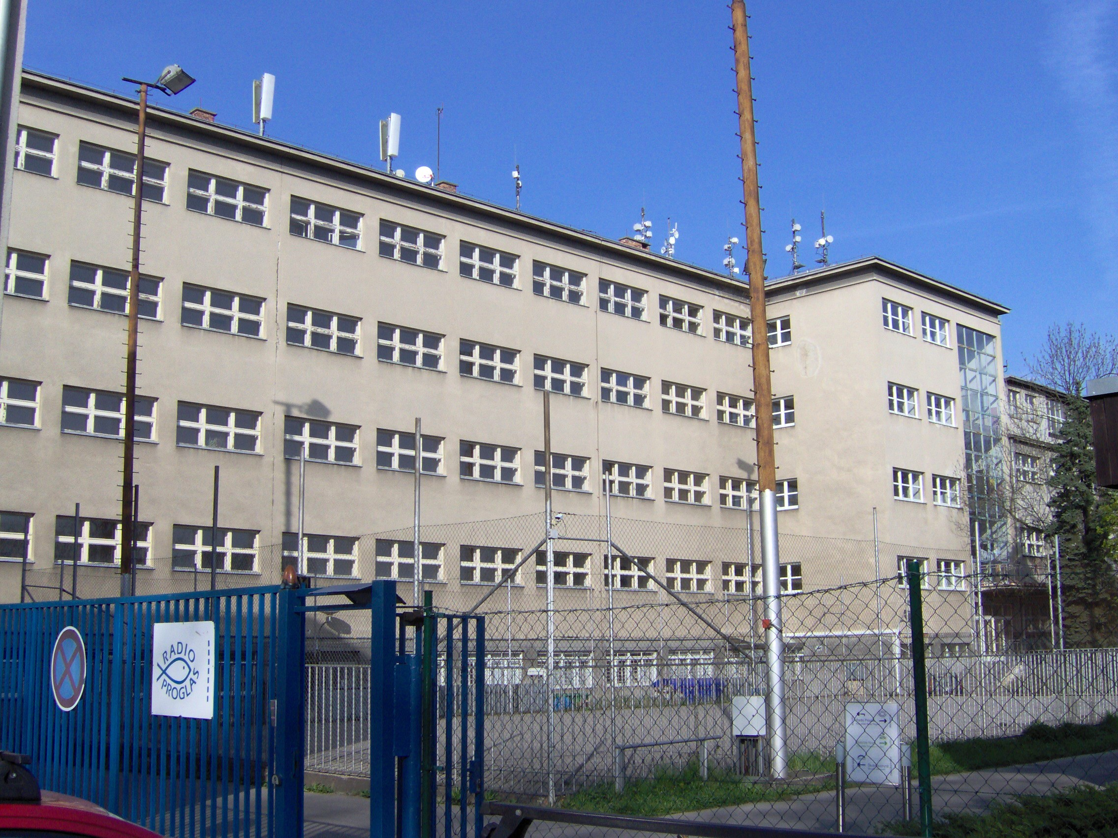 Biskupské gymnázium, Brno, Czech Republic